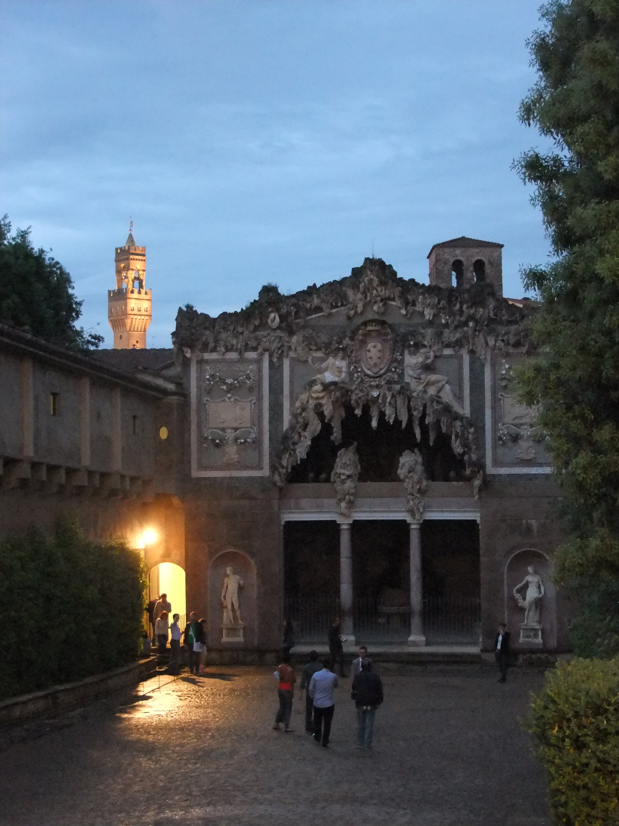 Exit from Vasari Corridor, Florence